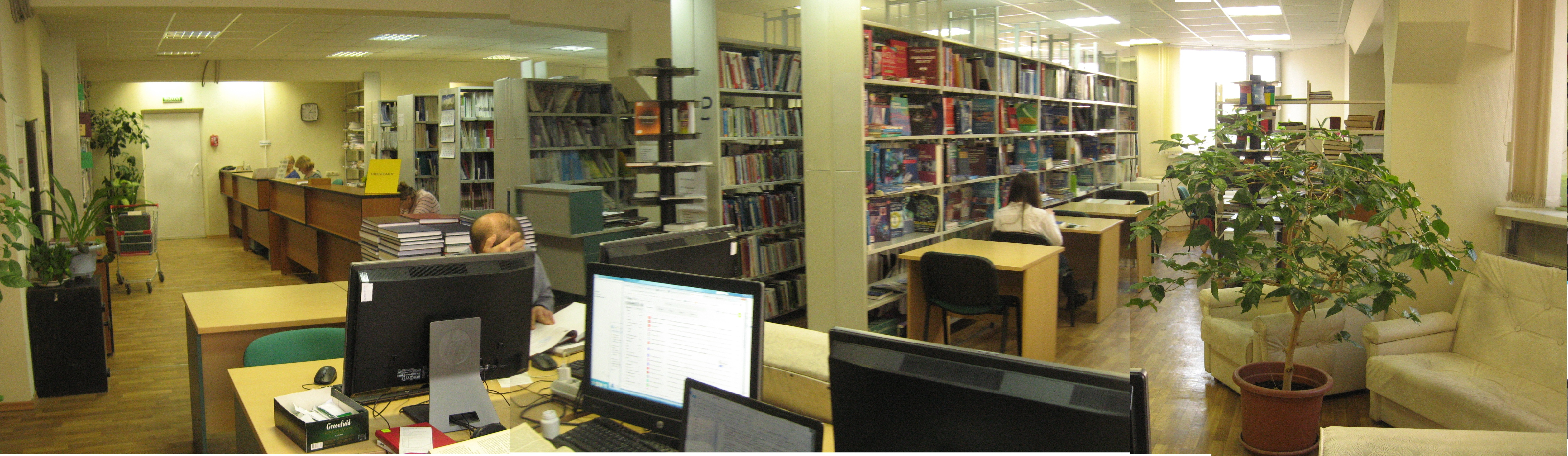 The reading room of the Central Scientific Medical Library (TsNMB) after the start of the transfer of the building’s areas for a doctor's accreditation center, etc. There are only ~ 15 workplaces for readers, 2-3 computers are available (with access to catalogs and Internet resources of the library), no table lamps , the issuance of literature and the consultation of readers takes place in the same small room where they work with literature (and the noise interferes with the readers).